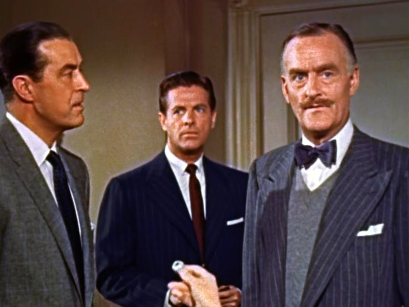 L. to R. : Ray Milland, Robert Cummings & John Williams in Dial M for Murder - trailer (cropped screenshot)